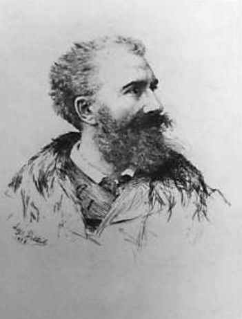 Portrait of Felix Buhot (1847-1898)